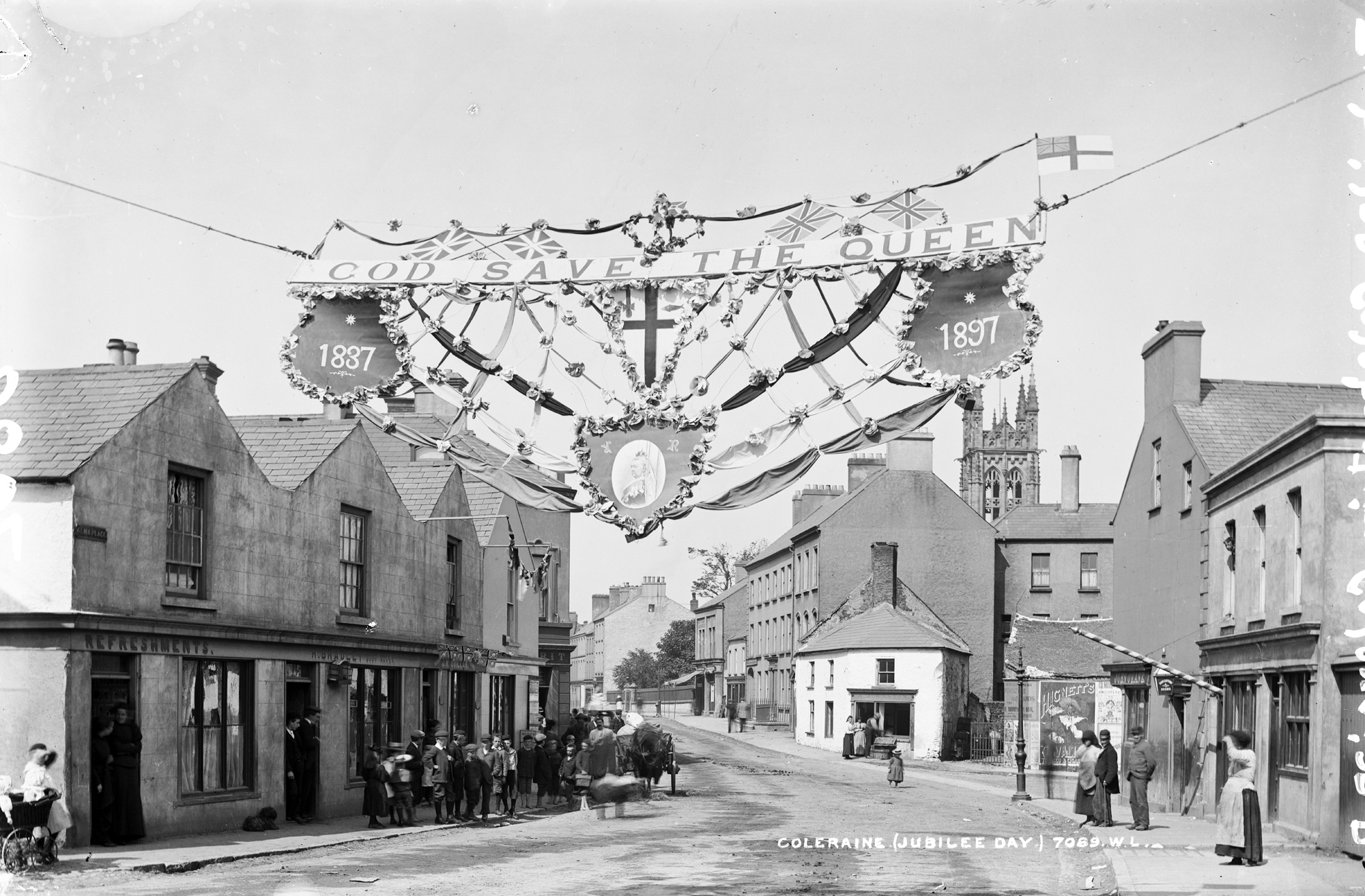 Well now, that surely is a fine display in celebration of Queen Victoria's Diamond Jubilee on Alma Place in Coleraine. Think that J. McQuillan - shop doorway on left behind gaggle (or giggle?) of children - is a Flesher! Not as sinister as it sounds... But with a lot of sharp knives about, wonder if that's Mr McQuillan leaning on the cart with a heavily bandaged hand in a sling? Asked if anyone could cast any light on the triangular "flag" just above the image of Queen Victoria? Upper left quadrant has an apparent upside down ankh, while the upper right has a fish. Turned out that "upside down ankh" was a sword - Coleraine coat of arms. Thanks Niall McAuley and derangedlemur. NLI Ref.: L_CAB_07089